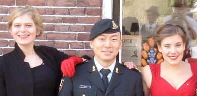 Lt. Lum represents the regiment at a goodwill visit in the Netherlands in March, 2015.